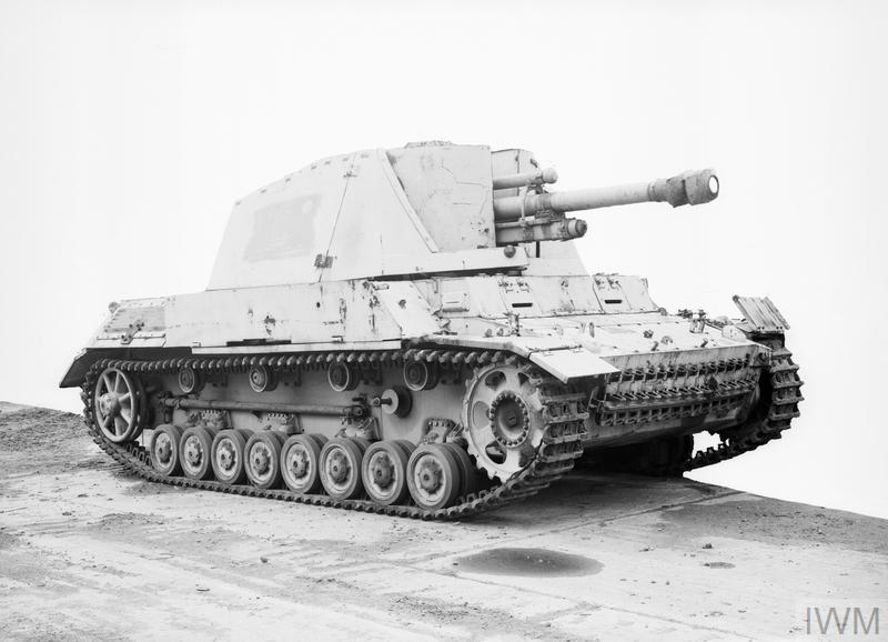 German Leichte PzH18/40/2 auf Geschützwagen III/IV (Sf) self-propelled gun. (© IWM (STT 9671)